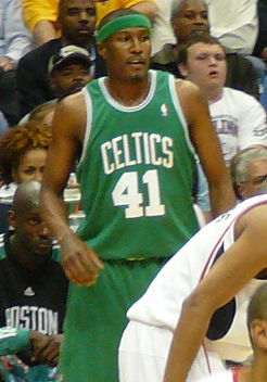 User:Chrisjnelson agreed to license this image of James_Posey.jpg under a free attribution license.